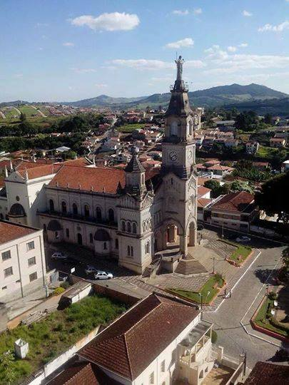 Santuario San Francisco de Paula and NS of Fatima sanctuary